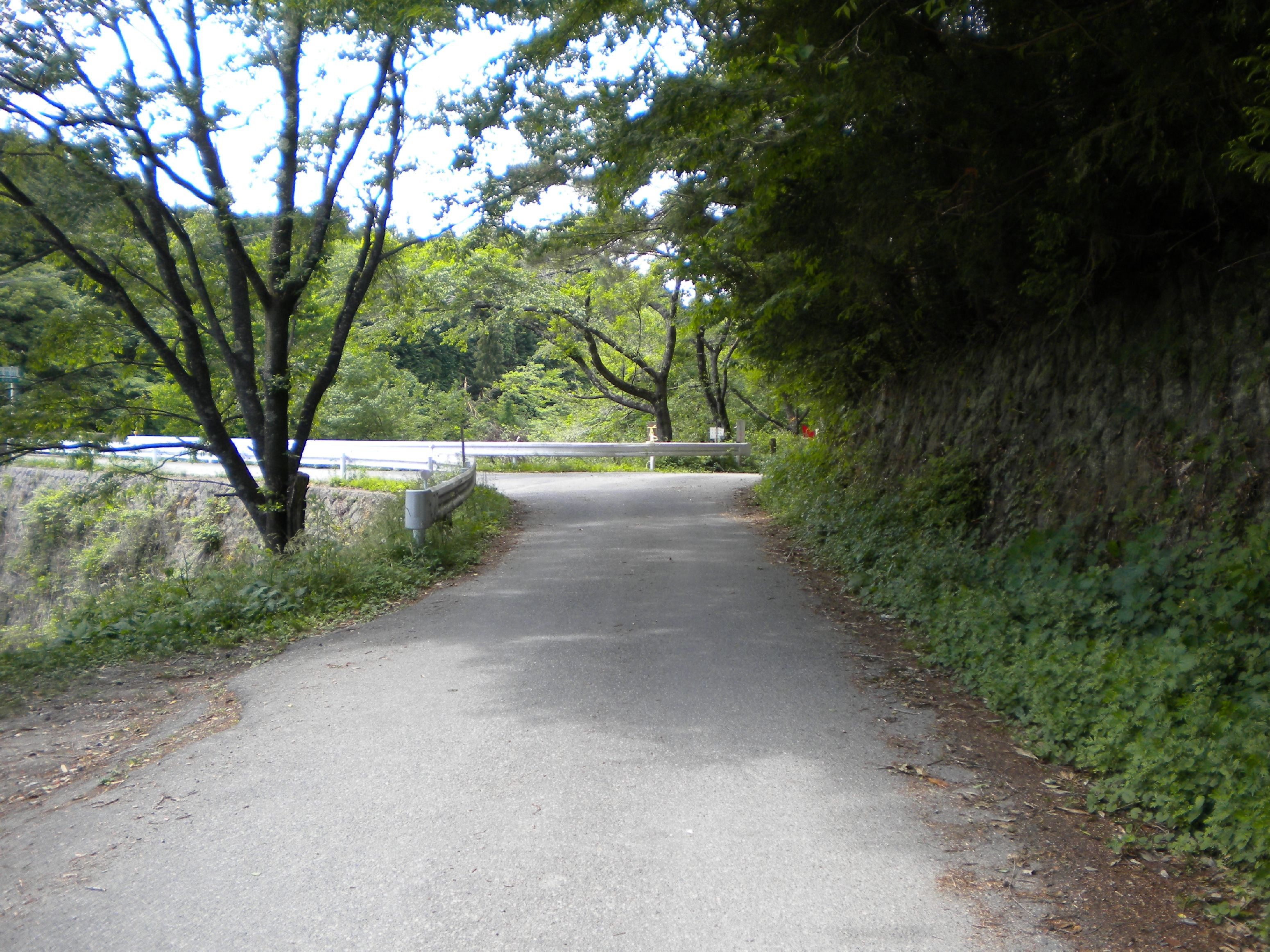 The Tochigi Prefectural Road Route 273 in Kamiterashima, Shioya Town